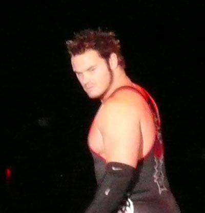 Kevin Fertig (Kevin Thorn) at a WWE live event in Belfast, Northern Ireland on the 5th December 2007.